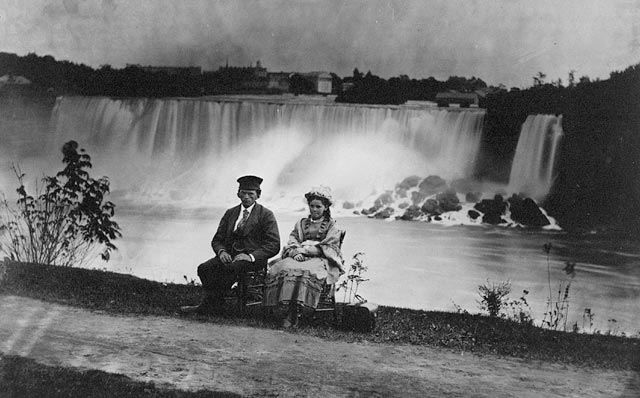 Young man and girl seated on the Canadian side of Niagara Falls, circa 1858. Credit: Library and Archives Canada / PA-148630 Retrieved from